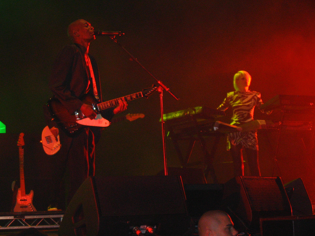 Faithless performing at Budapest Sports Arena, Hungary during The Dance Never Ends tour.